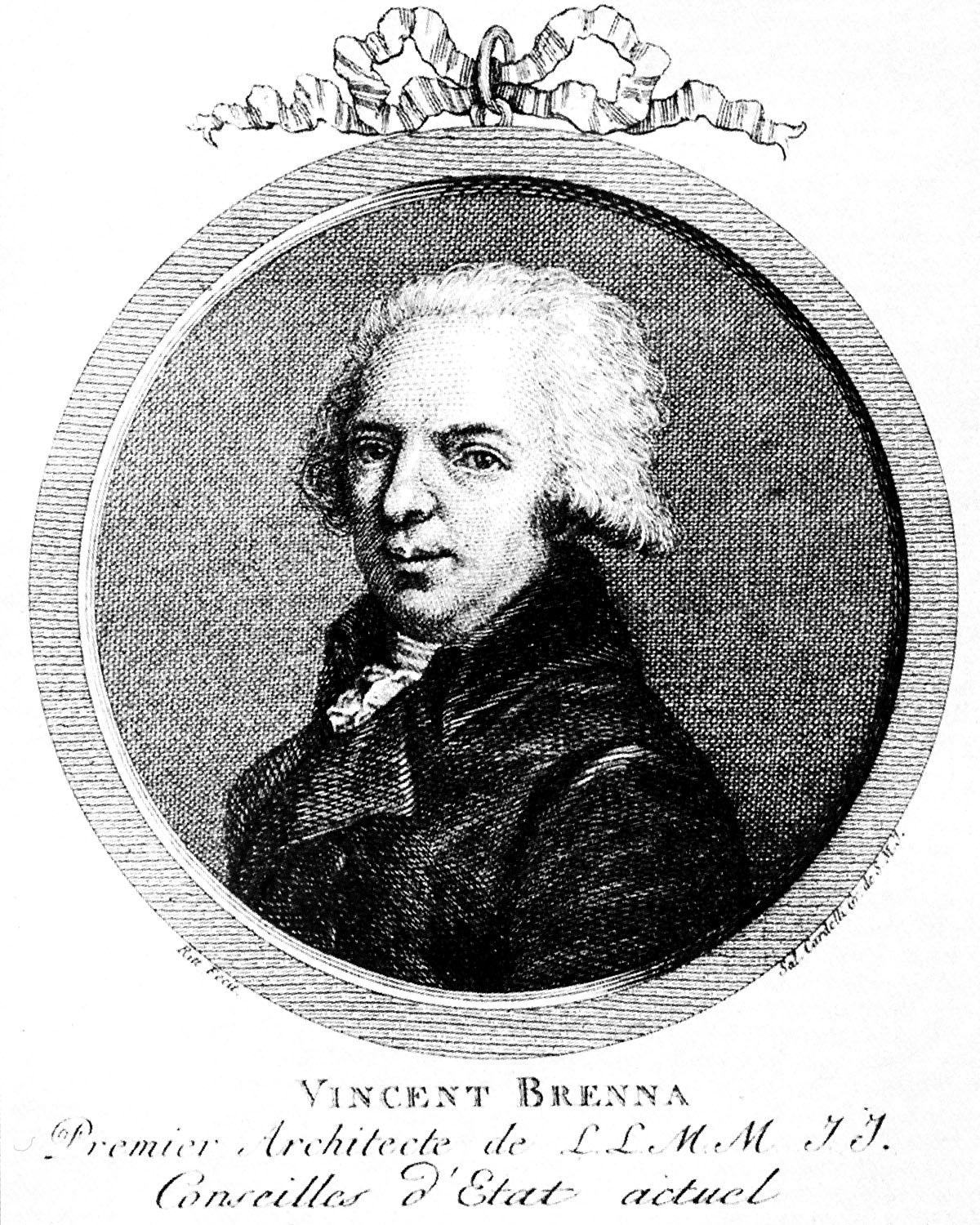 Portrait of Vincenzo Brenna (1747-1820)